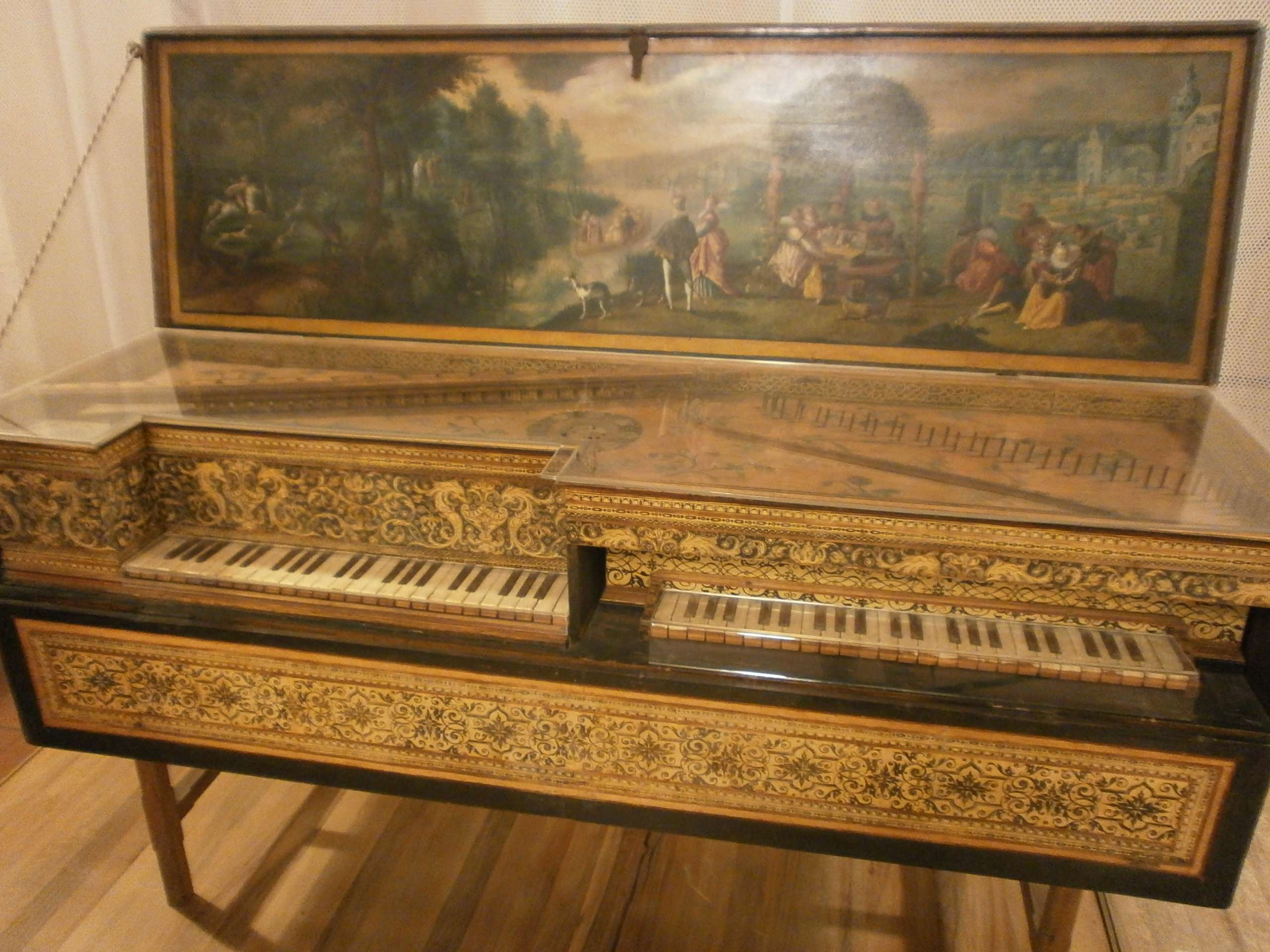 Museo strumenti musicali - milan 8